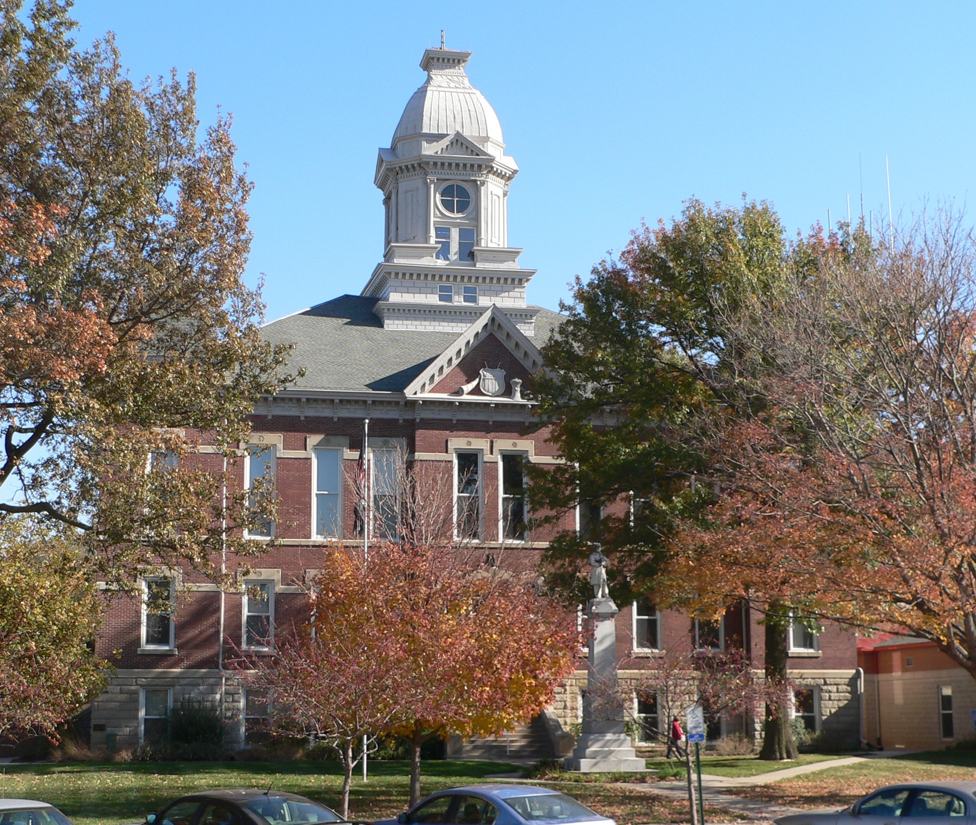 Washington County Courthouse in Blair, Nebraska; seen from the west. The Renaissance Revival building was constructed in 1889. It is listed in the National Register of Historic Places.